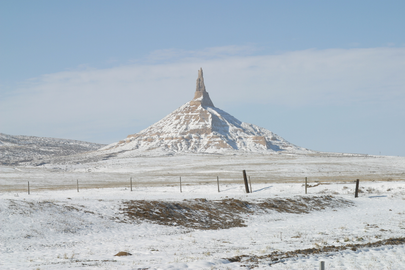 Photo of Chimney Rock during Nebraska winter of 2002.